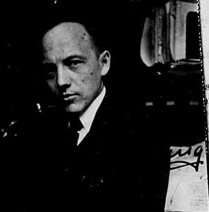 Clearer picture of existing photo associated with Wiki Article on John Carl Doemling